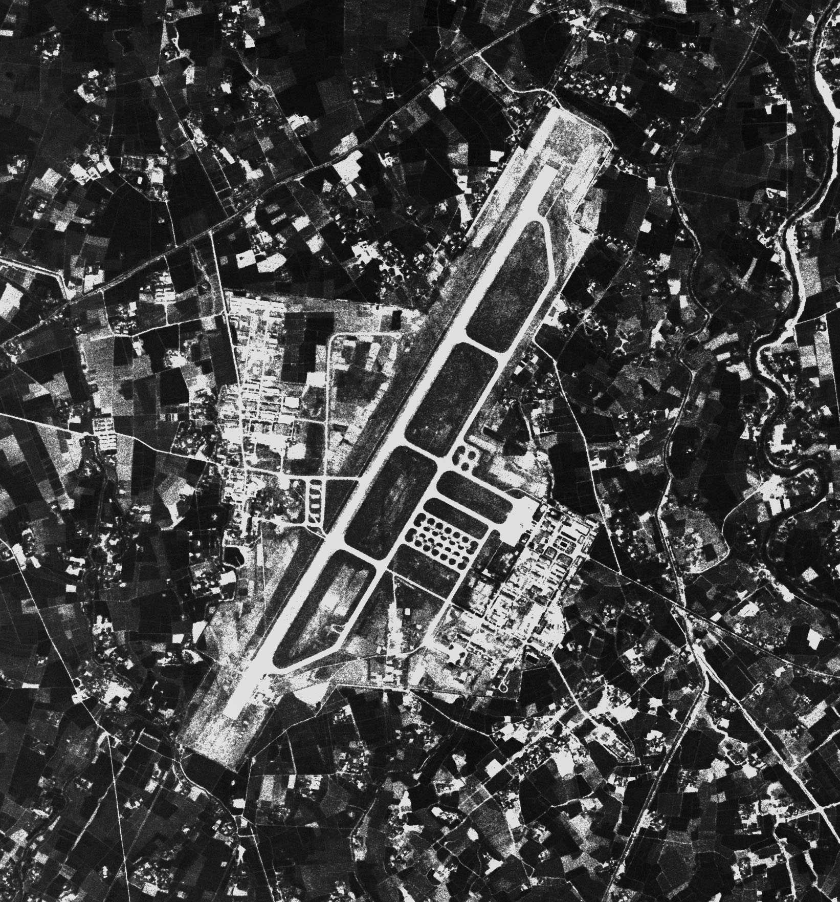 Shuangliu Airport, Chengdu